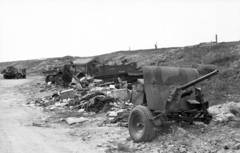 Information added by Wikimedia users.Abandoned 2pdr AT-gun and a Scout Carrier in a background in Calais